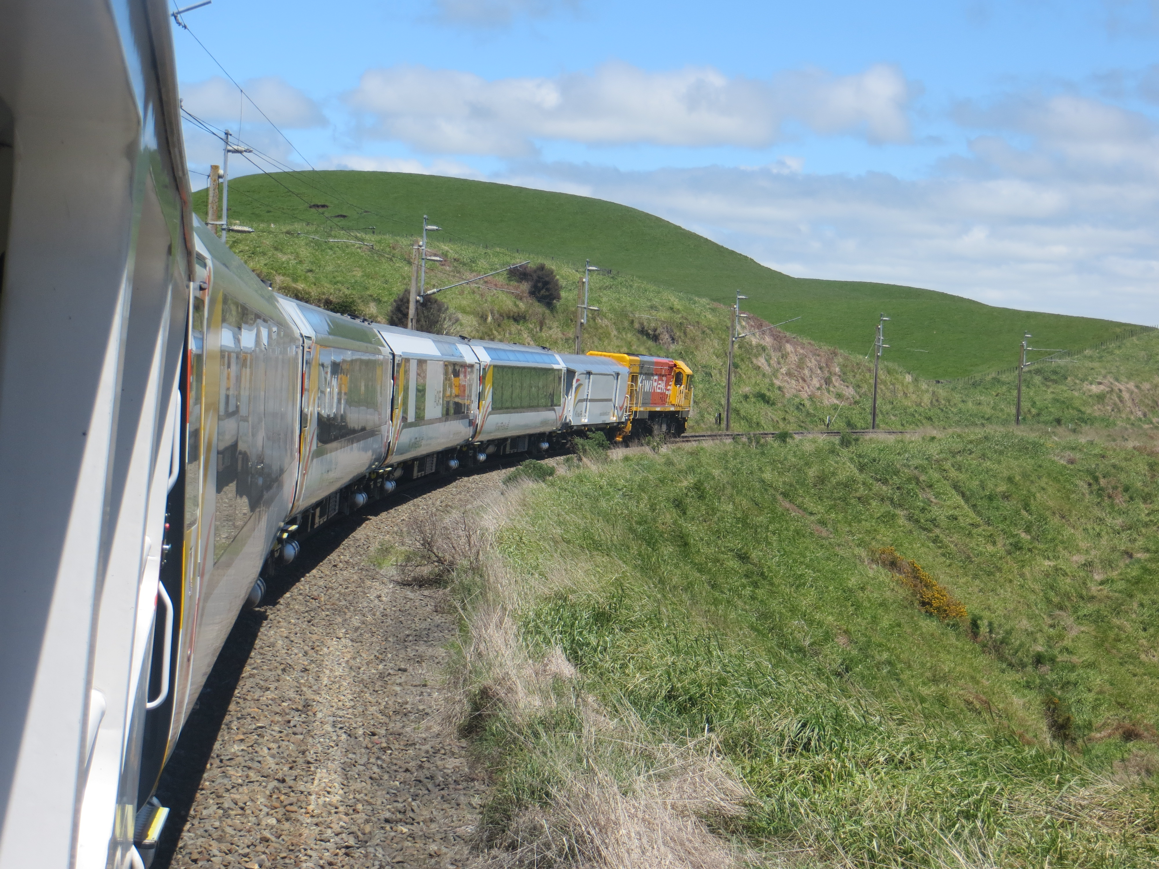 the train is diesel hauled on Mondays